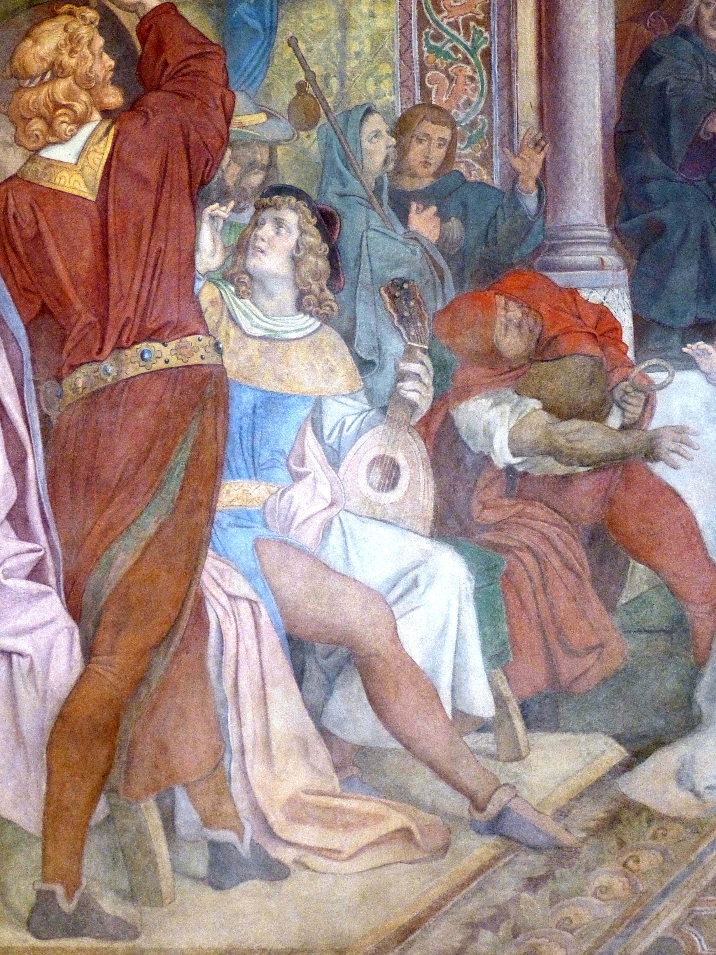 Wartburg ( Eisenach/Thuringia ). Minstrel hall: Fresco "The Minstrel Contest" ( 1855 ) by Moritz von Schwind - Walther von der Vogelweide.